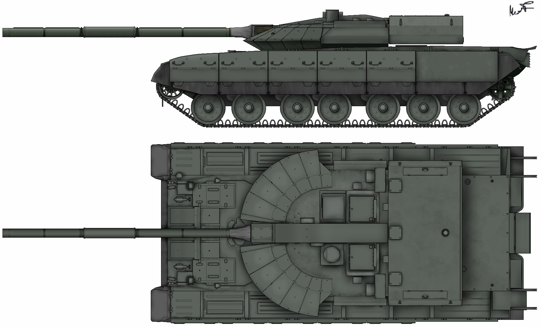 2 view drawing of the 1999 prototype of the russian Object 640 MBT (Black Eagle). This drawing does not represent the theoretical, idealized "T-2000"/ "Black Eagle" seen as model on exhibitions a.o.